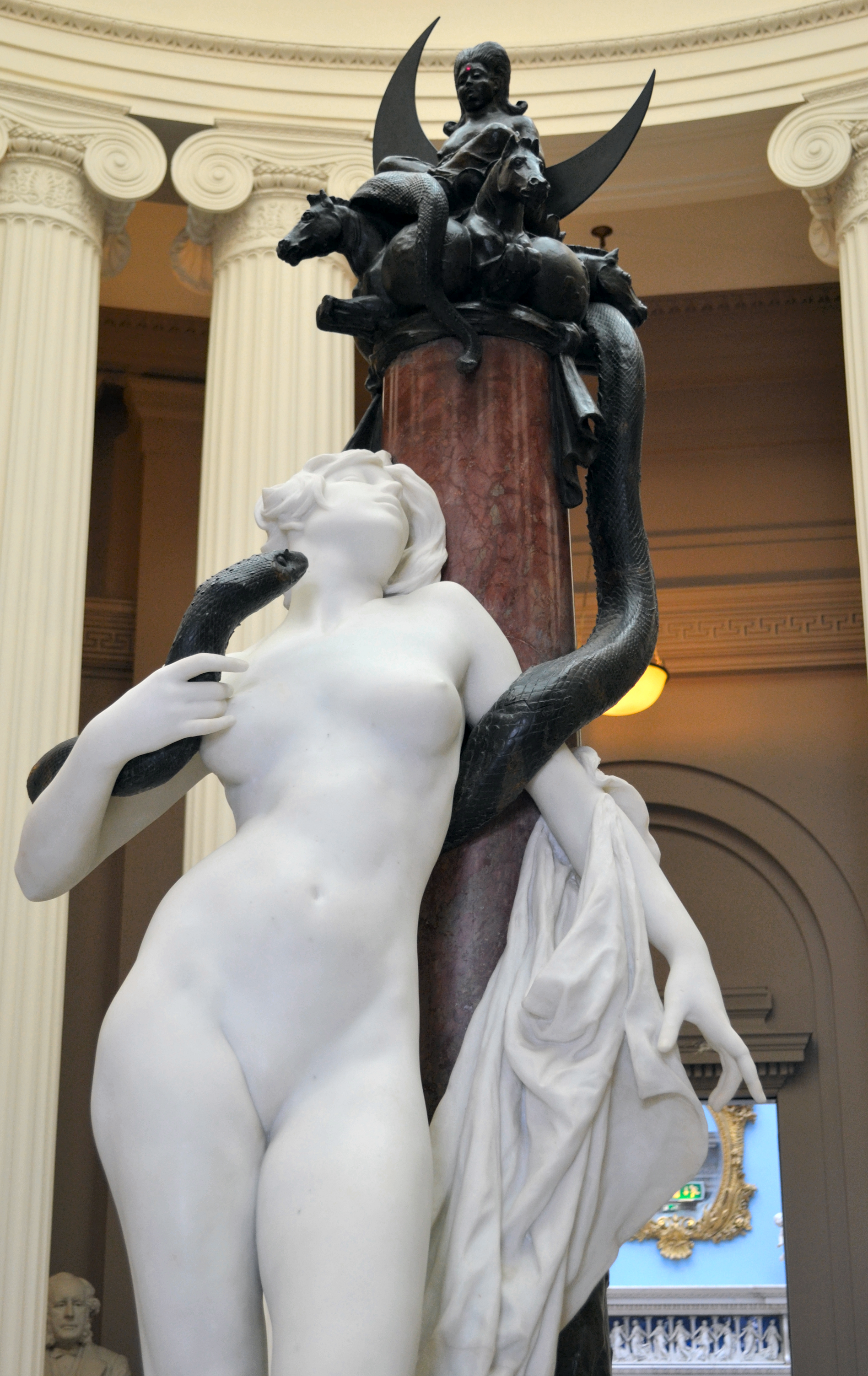 Official description here.